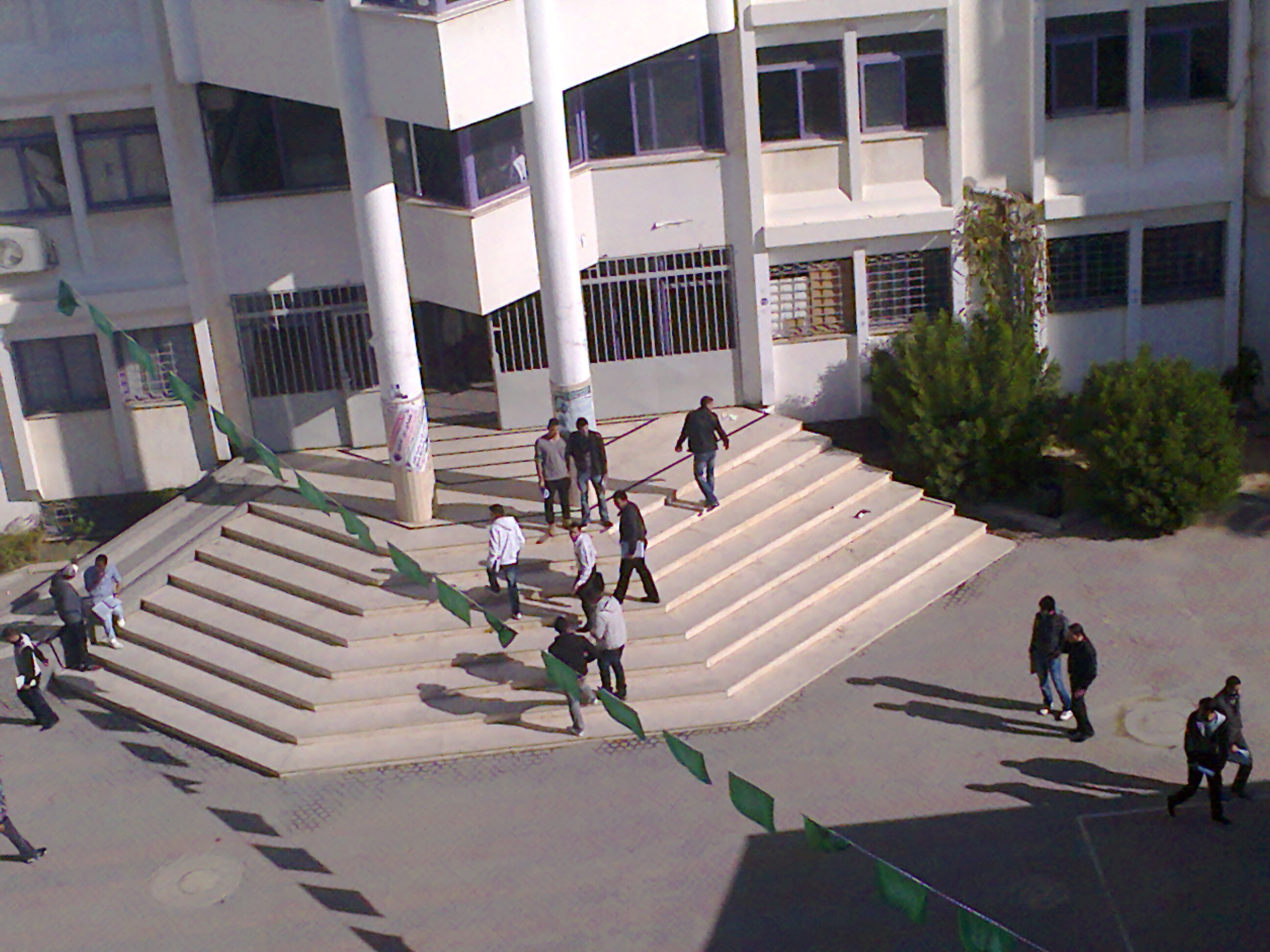 ساحة مبنى الكليات الأدبية بجامعة الأزهر